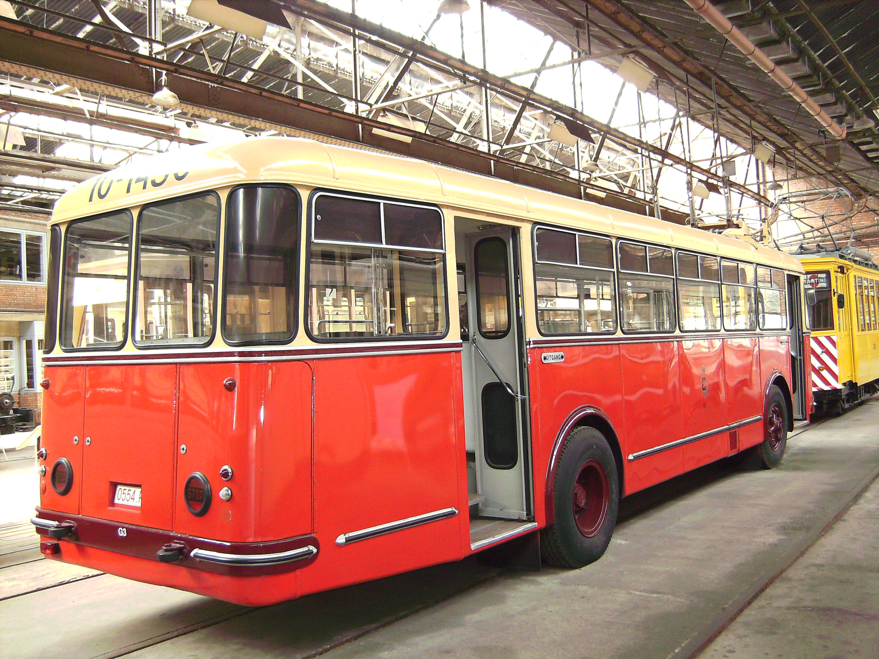 Gyrobus G3, the only surviving gyrobus in the world (build in 1955 in the Flemish tamway and bus museum, Antwerp.